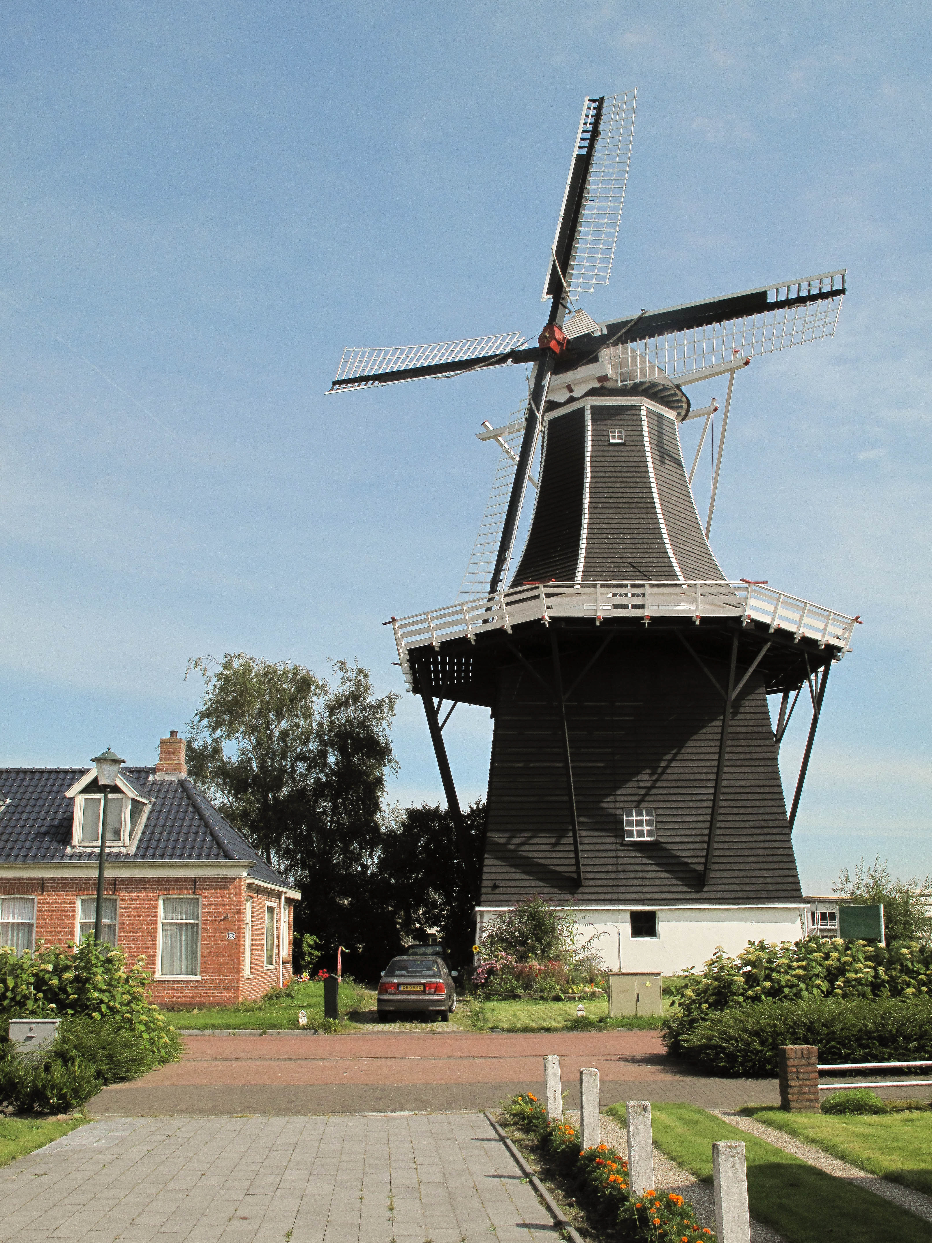 Grijpskerk, windmill: molen de Kievit